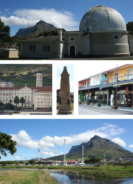 Collection of images of Observatory in Cape Town. Top: The historic observatory building after which the area is named. Middle left: Groote Schuur Hospital. Centre Middle: A monument. Middle right: Cafes on lower main road in Observatory. Bottom: A view of Observatory's soccer and hockey stadium looking towards Devil's Peak. This picure of Groote Schuur Hospital was taken by Danie van der Merwe and released under Creative Commons Attribution 2.0 Generic. All other pictures were taken by the author, --Discott (talk) 11:31, 25 September 2010 (UTC)